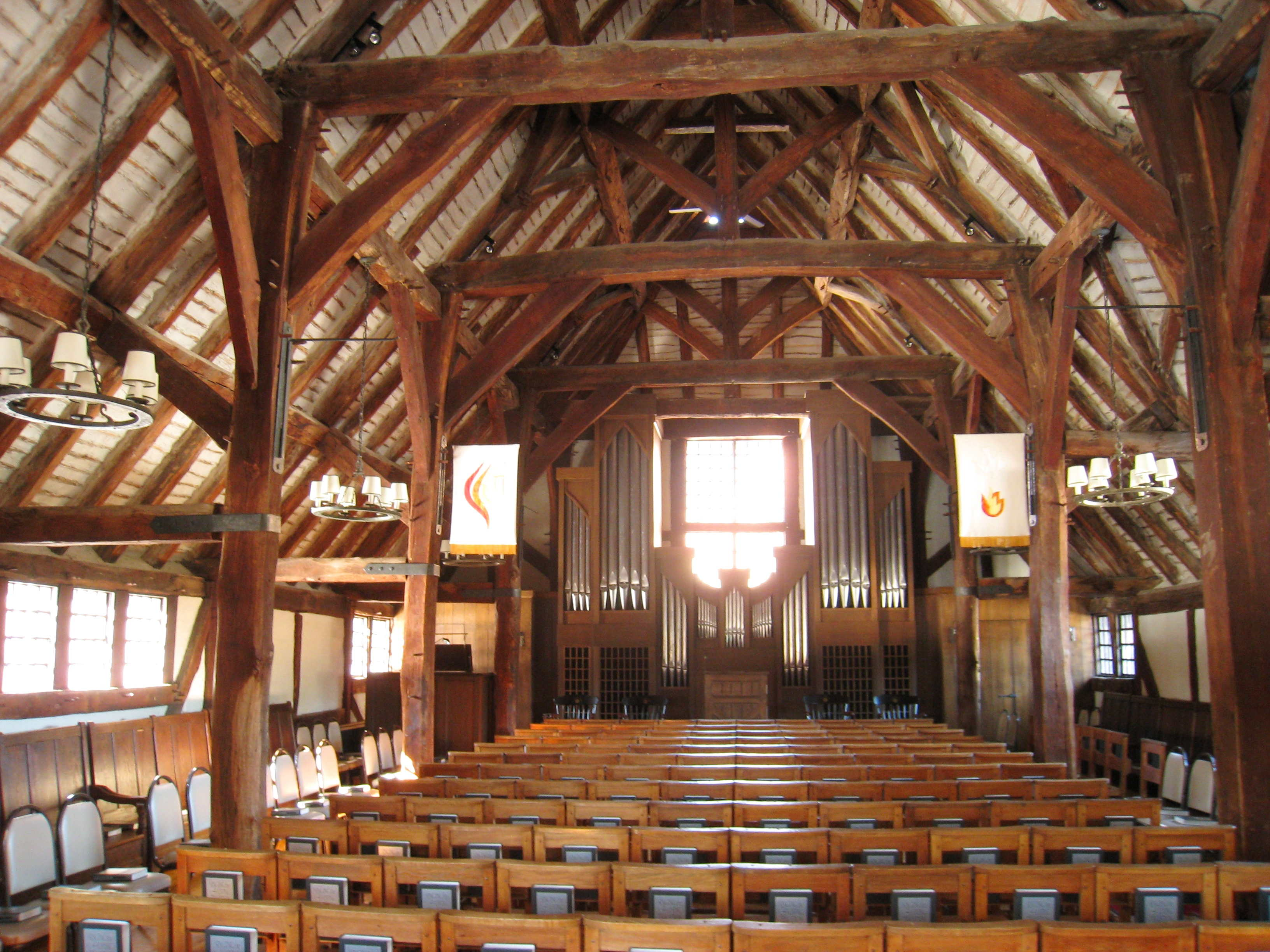 Avon Old Farms School, Avon, Connecticut, USA - chapel interior. Architect Theodate Pope Riddle; school founded 1927.